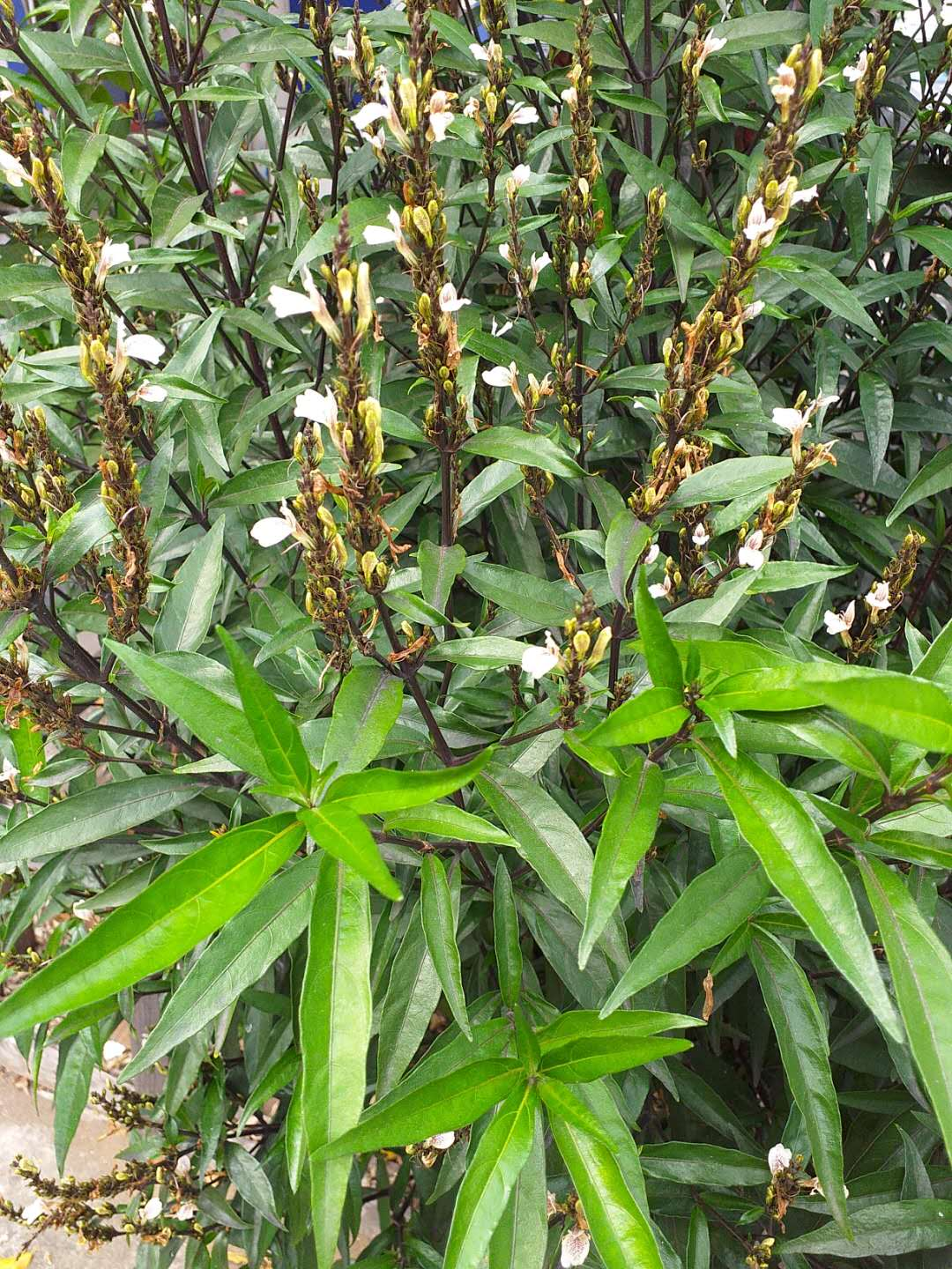 Justicia gendarussa. Taichung, Taiwan.